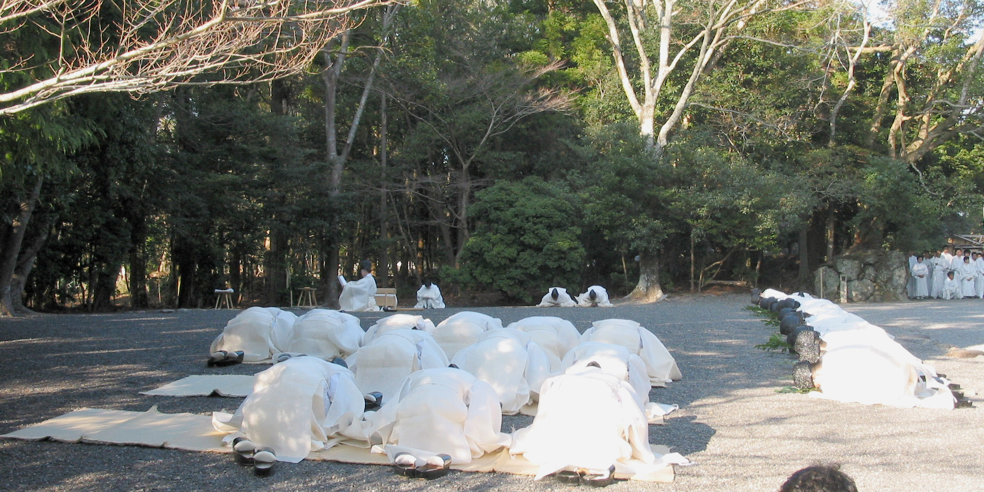 Toshikoshi-Ōharai (Ōharai on the last day of the year, at Daiichi-Torii-Nai-Haraedo, Naiku). Place:Ujitachi Ise City Mie Pref. Japan